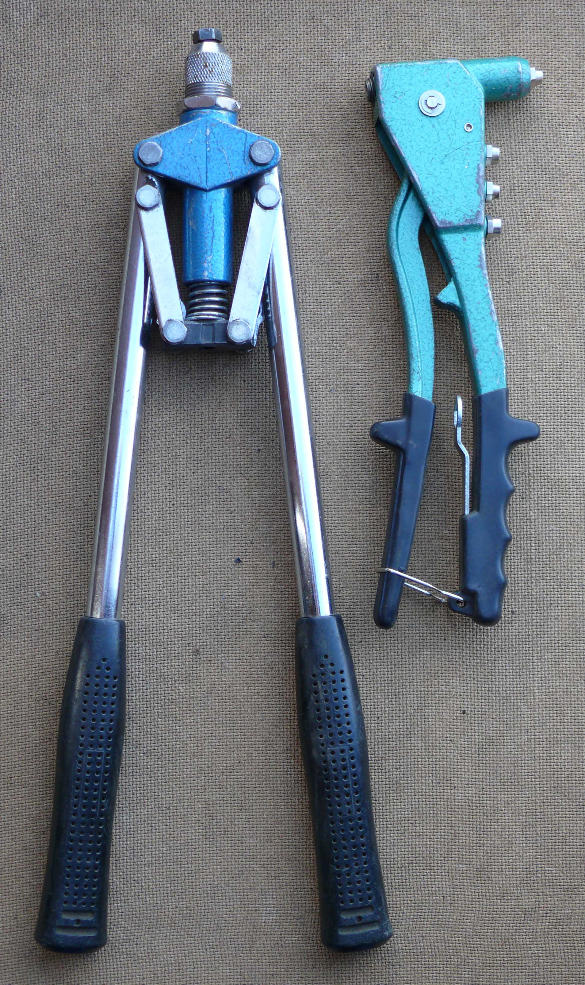 Riveting tool